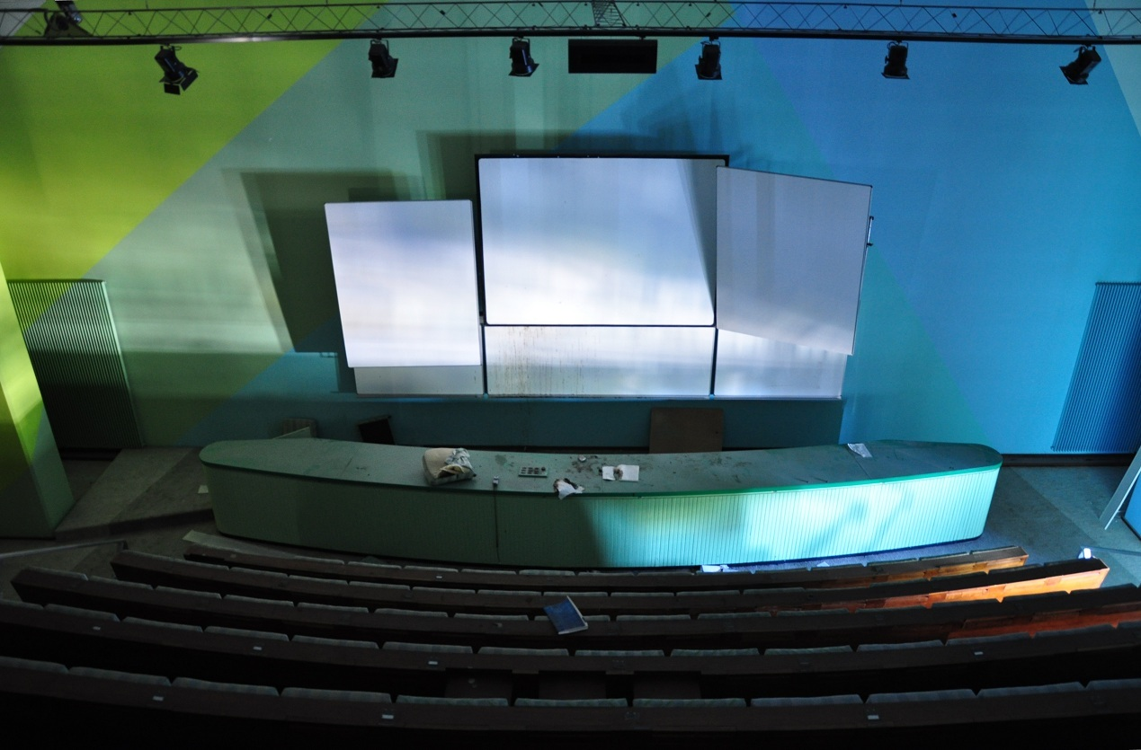 The auditorium of the former Neher Laboratory of the Dutch Postal Service (PTT) in Leidschendam. The building is among the Top 100 Listed Buildings in the Netherlands from the period 1940-1958.